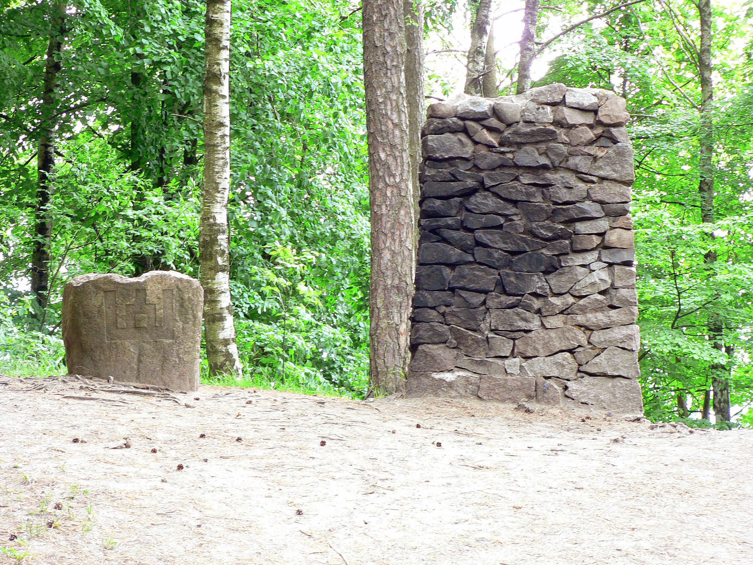 The stones on Rambynas Hill, Lithuania. Author: Wojsyl, 2005